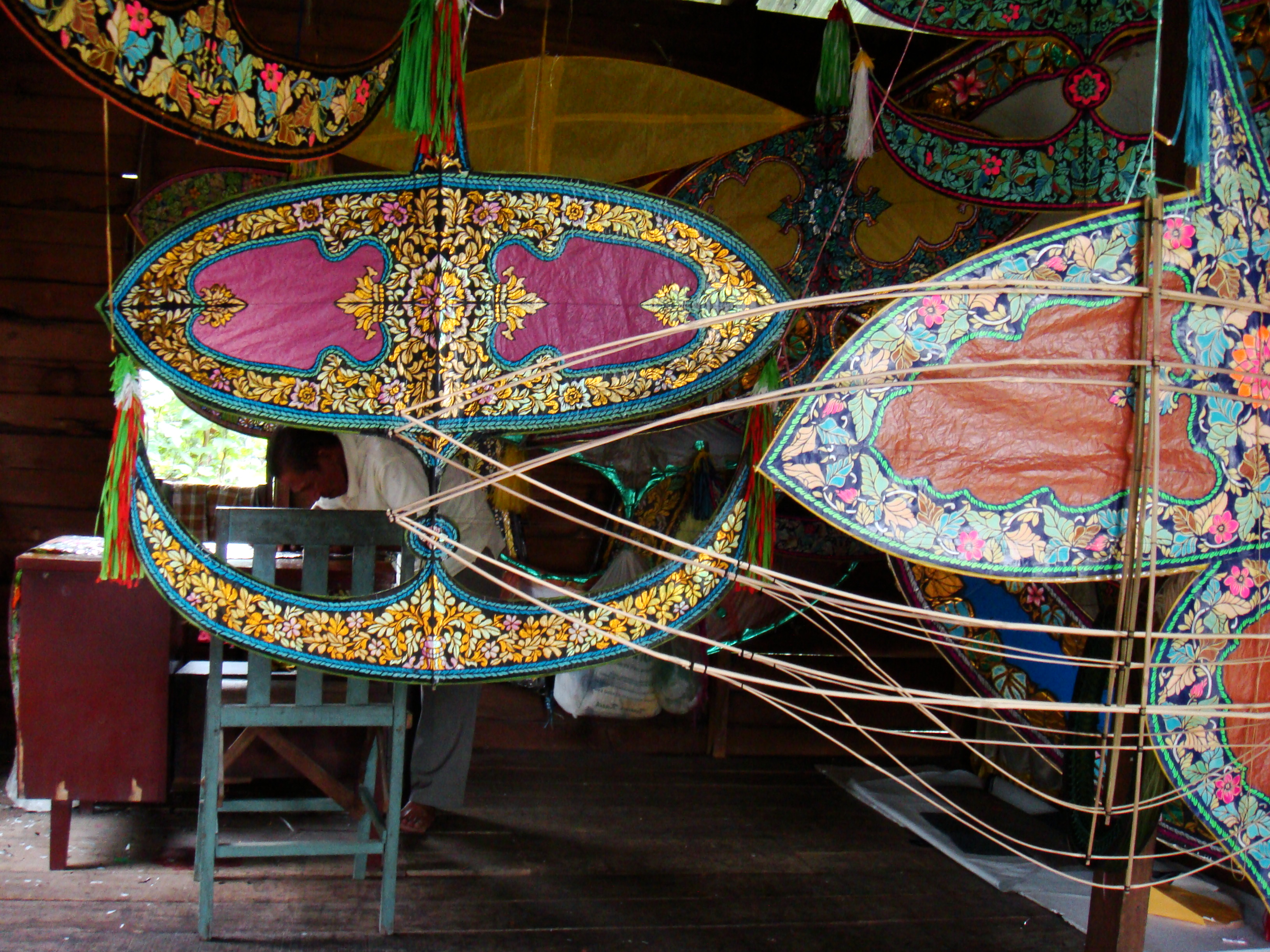 The wau in this picture is made by the same wau-maker shown in another picture here, However, the name of the wau-maker is not known. Location: opposite Balai Polis Badang, 15350 Kota Bharu, Kelantan, MALAYSIA.